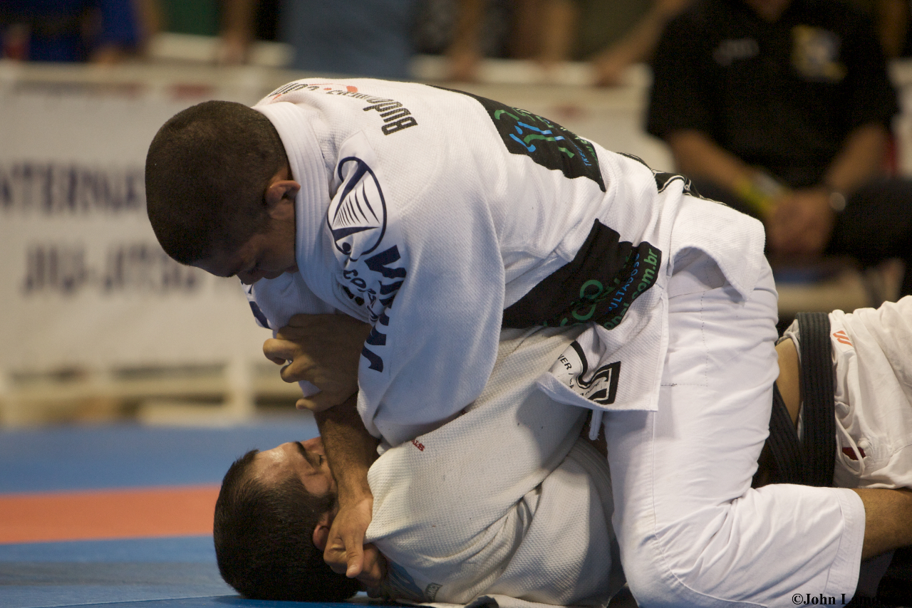 Brazilian Jiu-Jitsu Blackbelt Andre Galvao at the 2008 World Jiu-Jitsu Championship